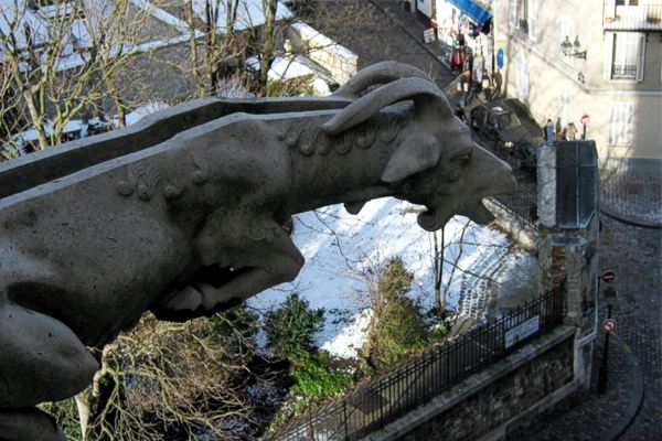 A gargoyle on the Basilica of the Sacré Cœur, Paris showing the water channelGargoyle, Sacre Coeur, Paris.